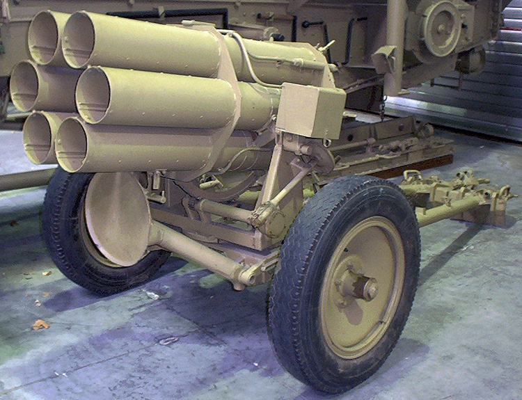 rocket artillery in a military museum in Koblenz